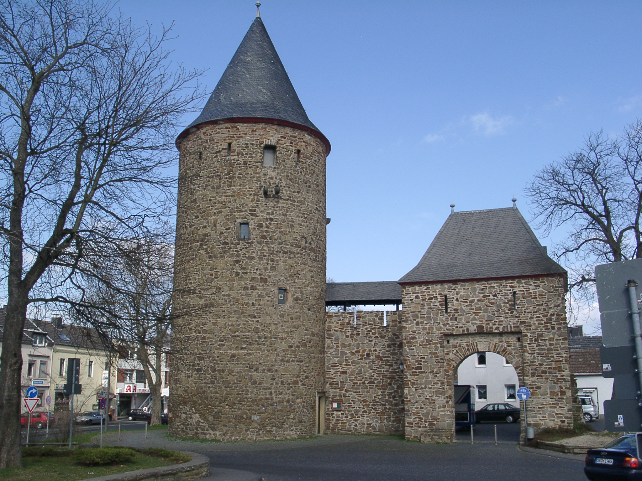 Wasemer Trum in Rheinbach, Germany.